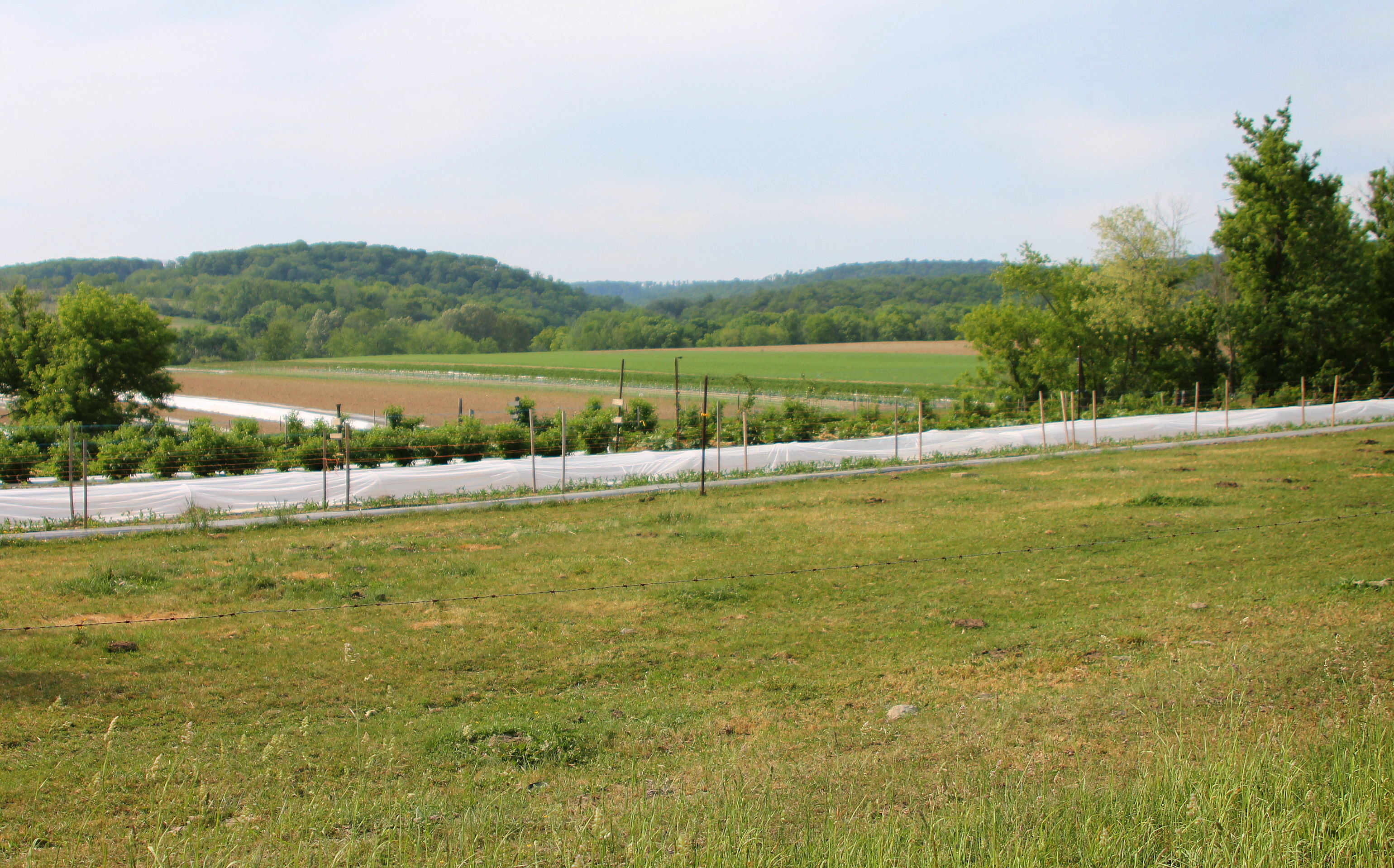 View of Jerseytown, Pennsylvania from Pennsylvania Route 254